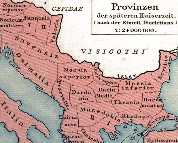 the roman provincees Thracia after the reform of Diocletian - outcut from a bigger map: The Roman provinces of the Lower Danube. Old historical map from Droysens Historical Atlas, 1886